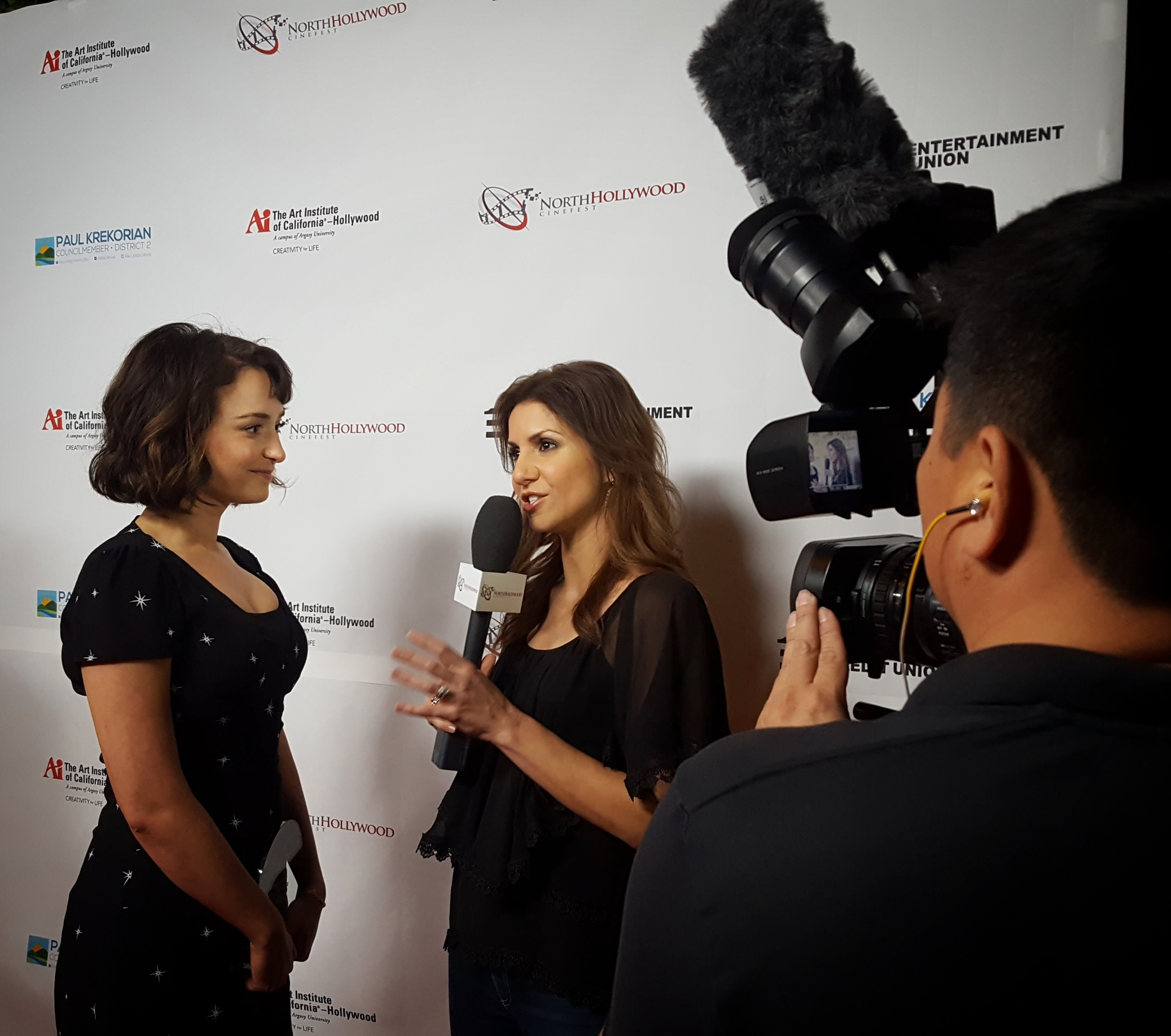 Actress Milana Vayntrub attends the 2017 North Hollywood Cinefest.